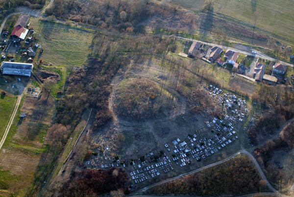 Galgaguta, Hungary, aerial photography, castle